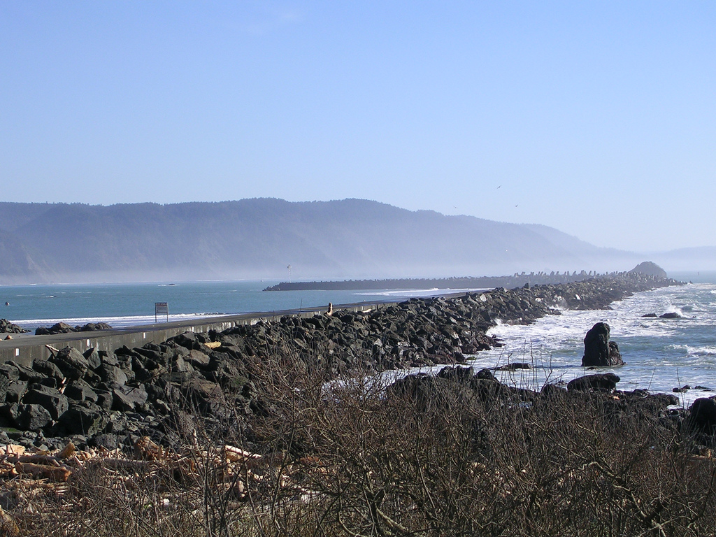 Crescent City Harbor